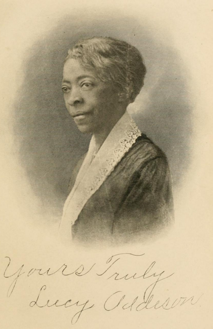 This is a portrait of Virginian educator Lucy Addison, published in the multi-volume series History of the American Negro and his institutions.